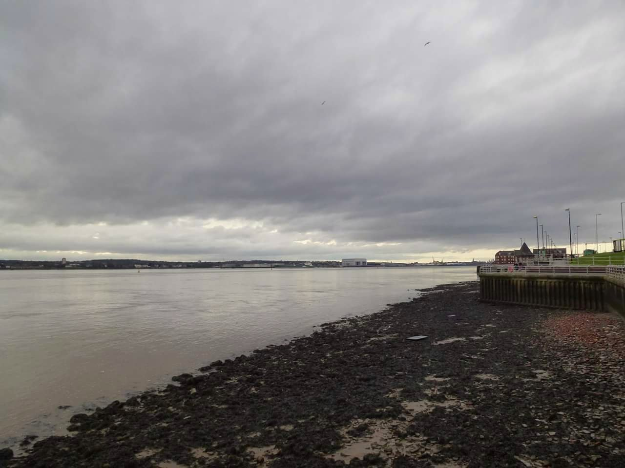 A grey day on the Mersey.